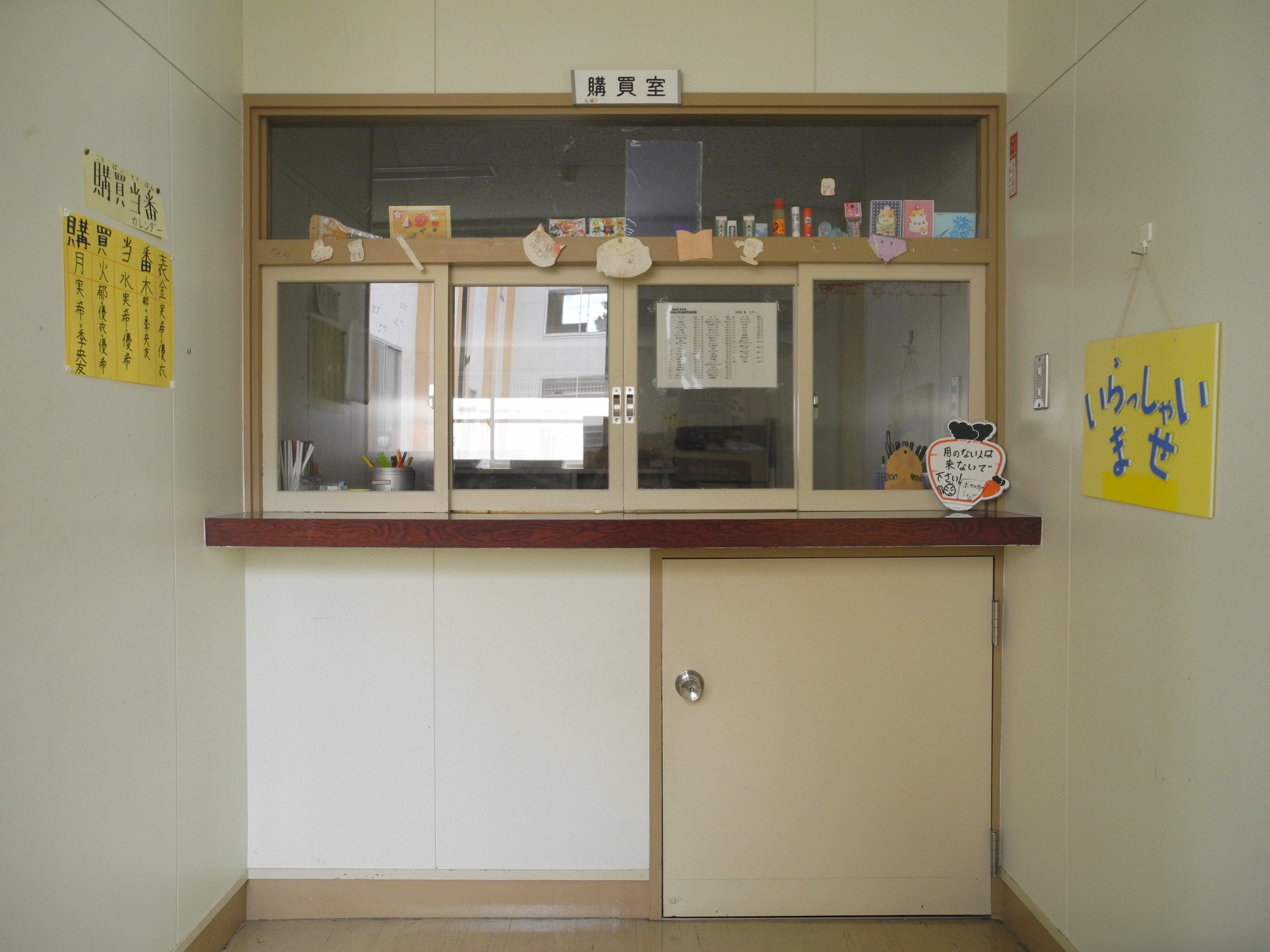 School store. Hitane Elementary School. Shimo-Hitane, Chokai, Yurihonjo, Akita, Japan.